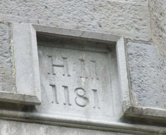 Killeen DeCusack Date